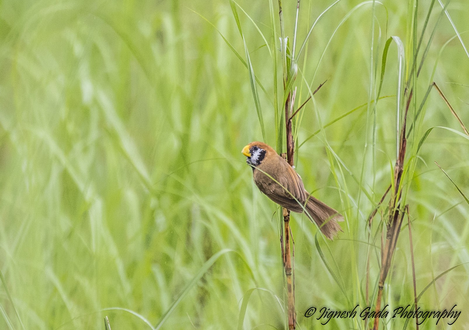 Manas National Park, Assam, India